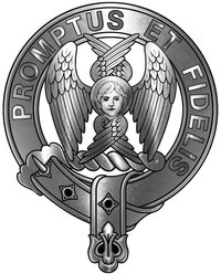 The Carruthers clansman/woman badge